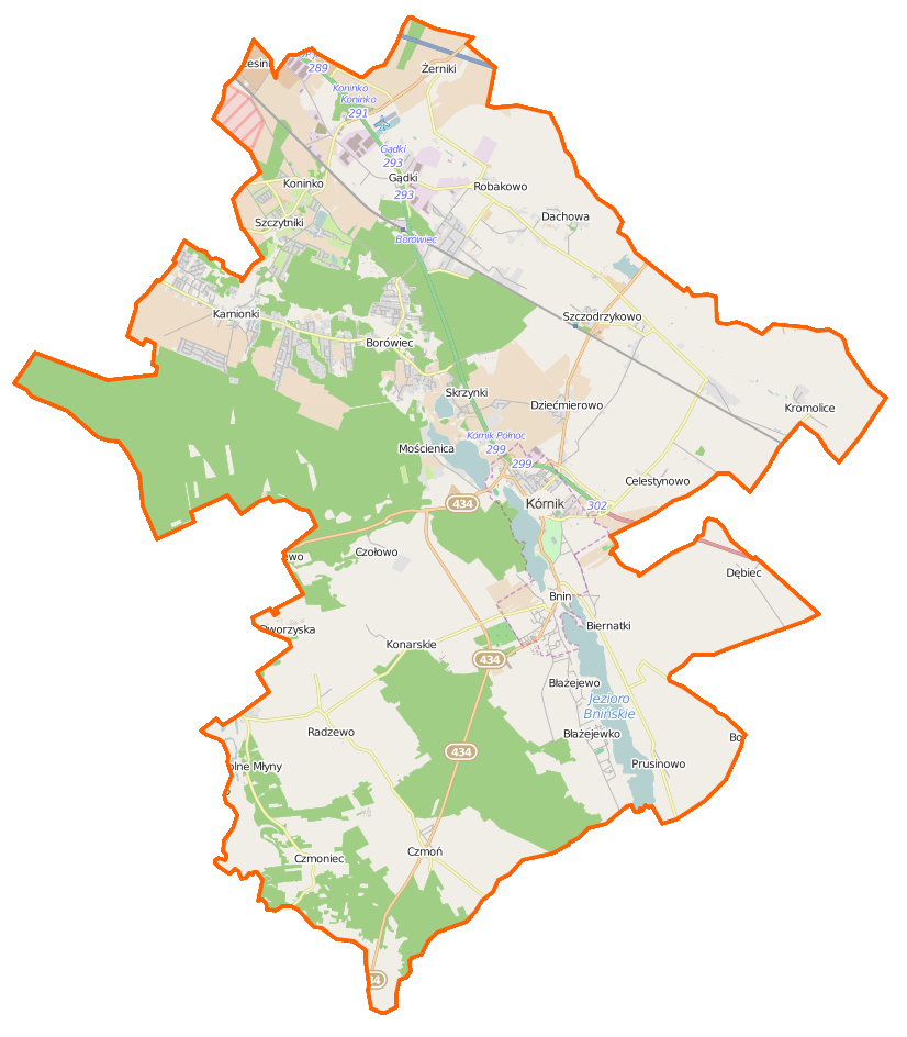 Map of Gmina Kórnik, Poland This map of Kórnik (gmina) was created from OpenStreetMap project data, collected by the community. This map may be incomplete, and may contain errors. Don't rely solely on it for navigation. Border coordinates52.345216.9210←↕→17.204252.1470